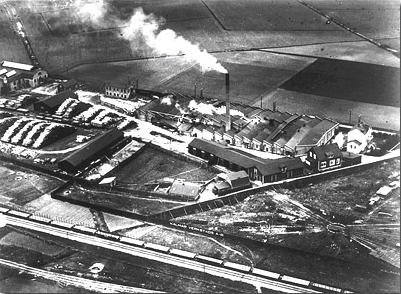 Kalmar Match Manufacturing Co. in Kalmar, owned by the Kreuger family. Photo from above, around 1930. Some of the buildings still exits but has been rebuilt for other activities.